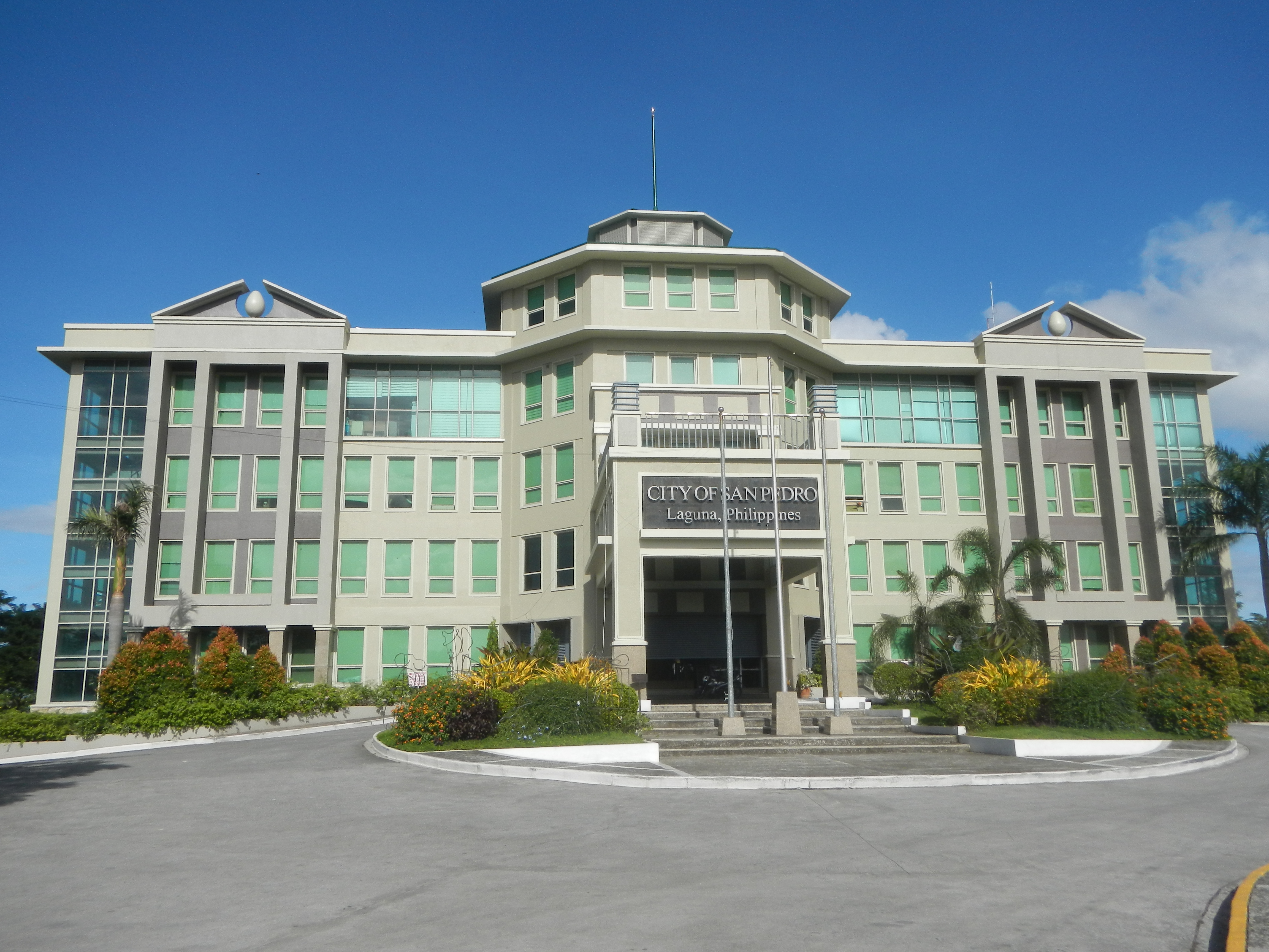 City Hall of San Pedro, Laguna - 2017; Poblacion, City of San Pedro, Laguna; National Road, San Antonio and Nueva, City of San Pedro, Laguna Barangays Nueva 14°21'17"N 121°3'37"E and San Antonio 14°20'53"N 121°1'54"E San Antonio, San Pedro, Poblacion 14°21'46"N 121°3'32"E San Roque 14°21'51"N 121°3'46"E Landayan 14°21'11"N 121°4'3"E San Pedro, Laguna (Note: Judge Florentino Floro, the owner, to repeat, Donor Florentino Floro of all these photos hereby donate gratuitously, freely and unconditionally all these photos to and for Wikimedia Commons, exclusively, for public use of the public domain, and again without any condition whatsoever).